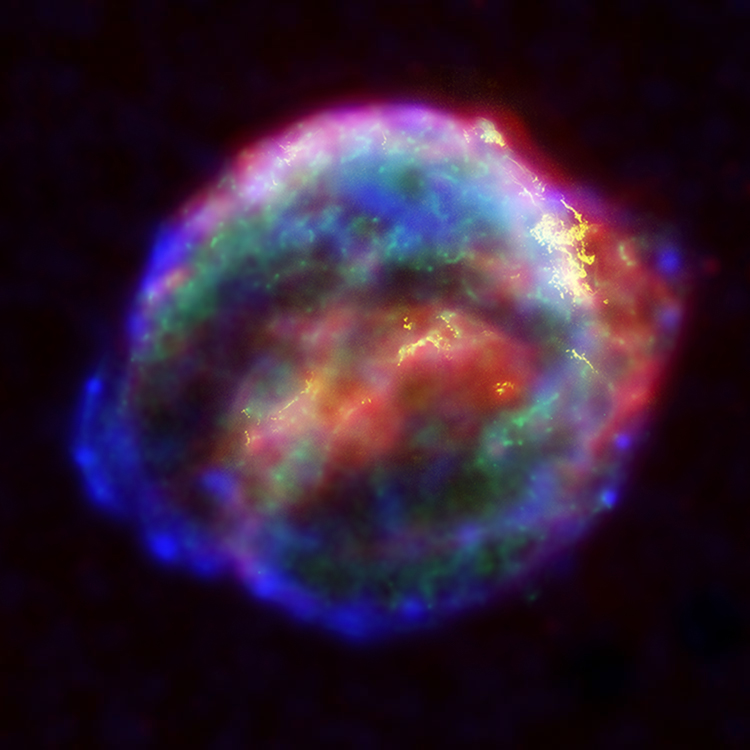 X-ray, Optical & Infrared Composite of Kepler's Supernova Remnant "On October 9, 1604, sky watchers -- including astronomer Johannes Kepler, spotted a "new star" in the western sky, rivaling the brilliance of nearby planets. "Kepler's supernova" was the last exploding supernova seen in our Milky Way galaxy. Observers used only their eyes to study it, because the telescope had not yet been invented. Now, astronomers have utilized NASA's three Great Observatories to analyze the supernova remnant in infrared, optical and X-ray light." [1] Color Code (Energy): Blue: X-ray (4-6 keV), Chandra X-ray Observatory, The higher-energy X-rays come primarily from the regions directly behind the shock front. Green: X-ray (0.3-1.4 keV), Chandra X-ray Observatory; Lower-energy X-rays mark the location of the hot remains of the exploded star. Yellow: Optical, Hubble Space Telescope; The optical image reveals 10,000 degrees Celsius gas where the supernova shock wave is slamming into the densest regions of surrounding gas. Red: Infrared, Spitzer space telescope; The infrared image highlights microscopic dust particles swept up and heated by the supernova shock wave.